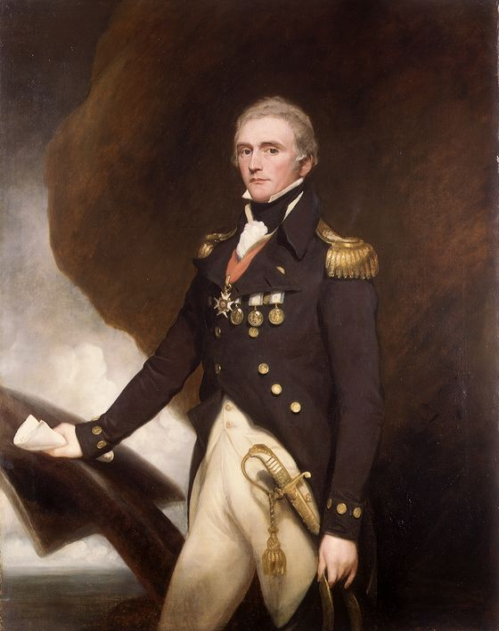 "Captain Sir Edward Berry, 1768-1831", oil on canvas, by the American artist John Singleton Copley. 1422 mm x 1118 mm. Courtesy of the National Maritime Museum, Greenwich, London.